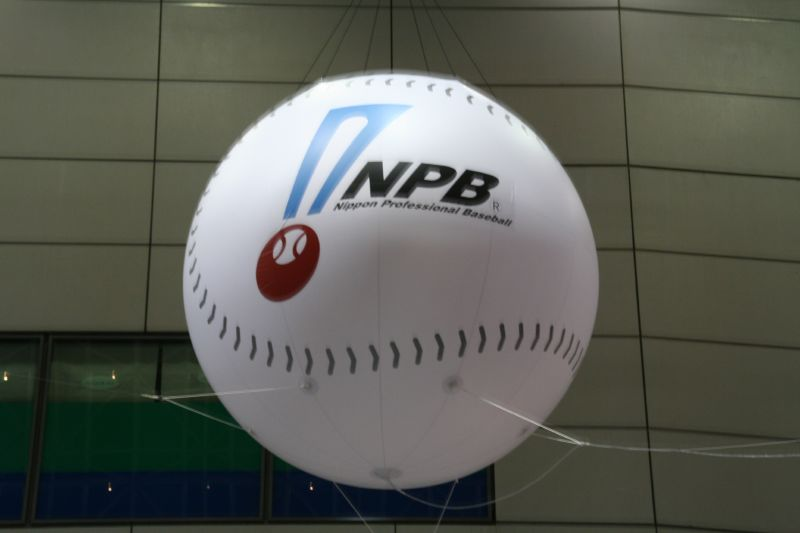 Nippon Professional Baseball